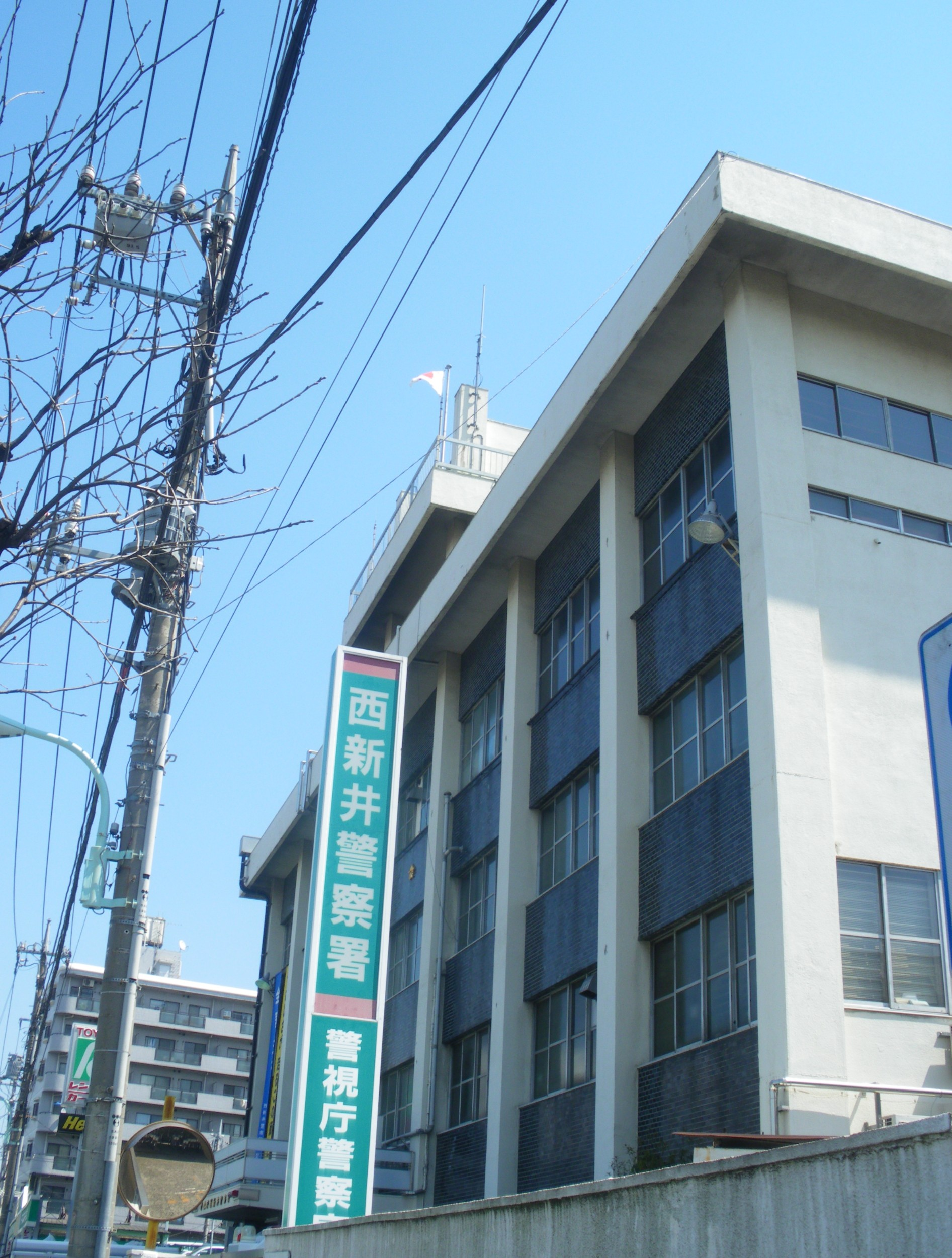 old Nishiarai Police Station(Adachi,Tokyo)